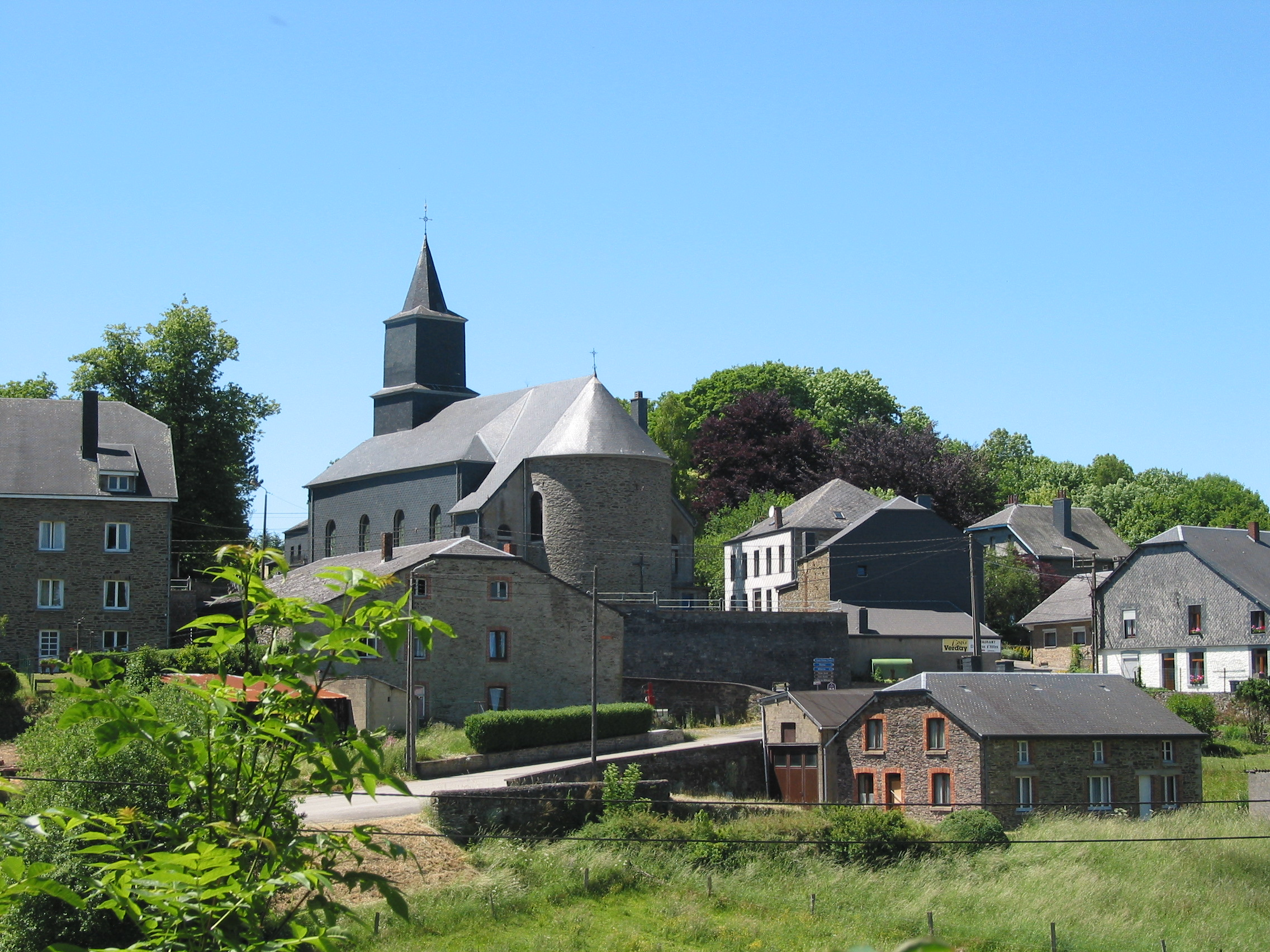 Louette-Saint-Pierre (Belgium), the St. Peter church (1840).